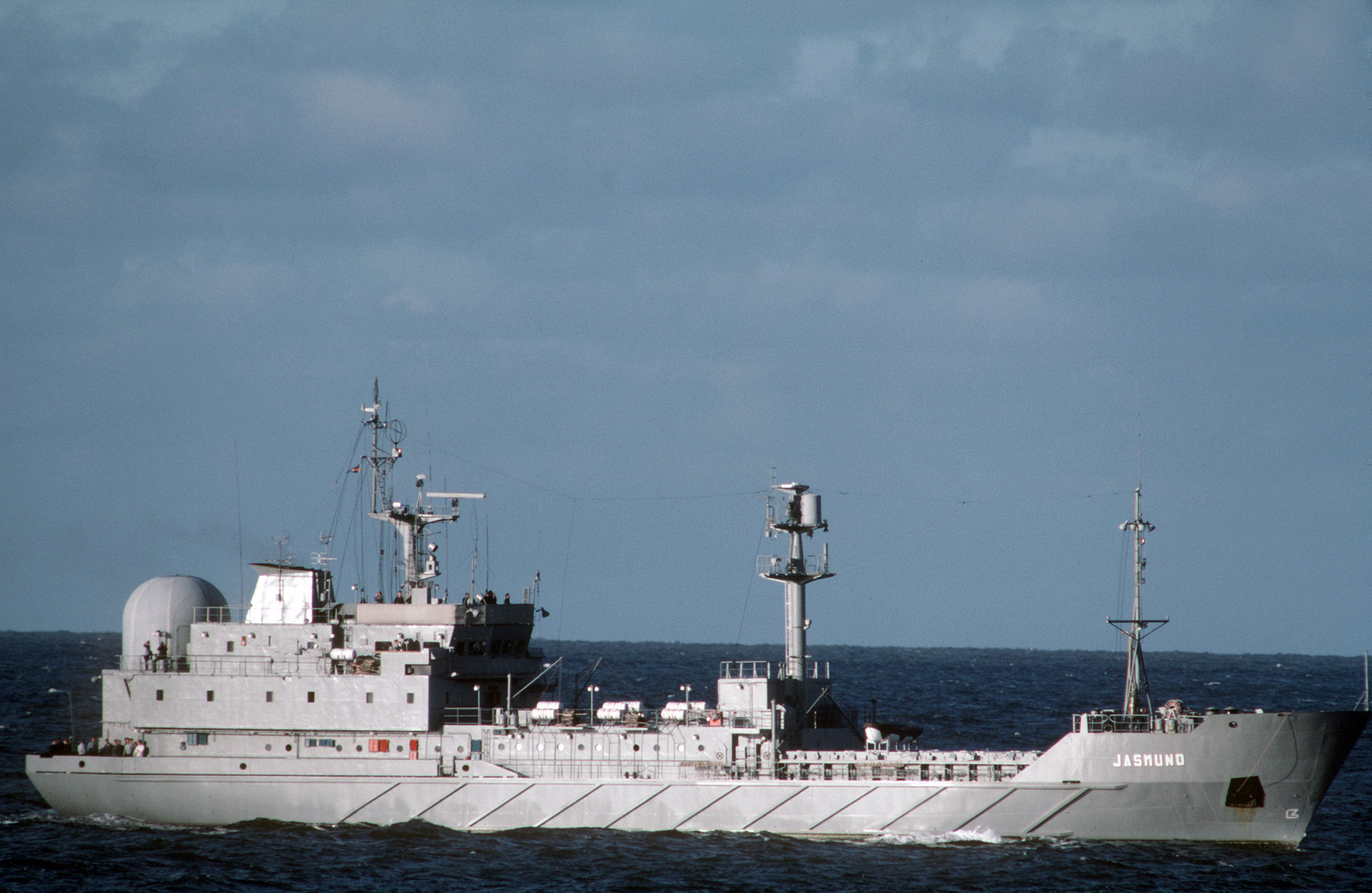 A starboard beam view of the East German intelligence ship JASMUND observing NATO ships during Exercise NORTHERN WEDDING 86.